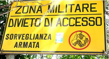 "Restricted military area. No trespassing. Armed security.